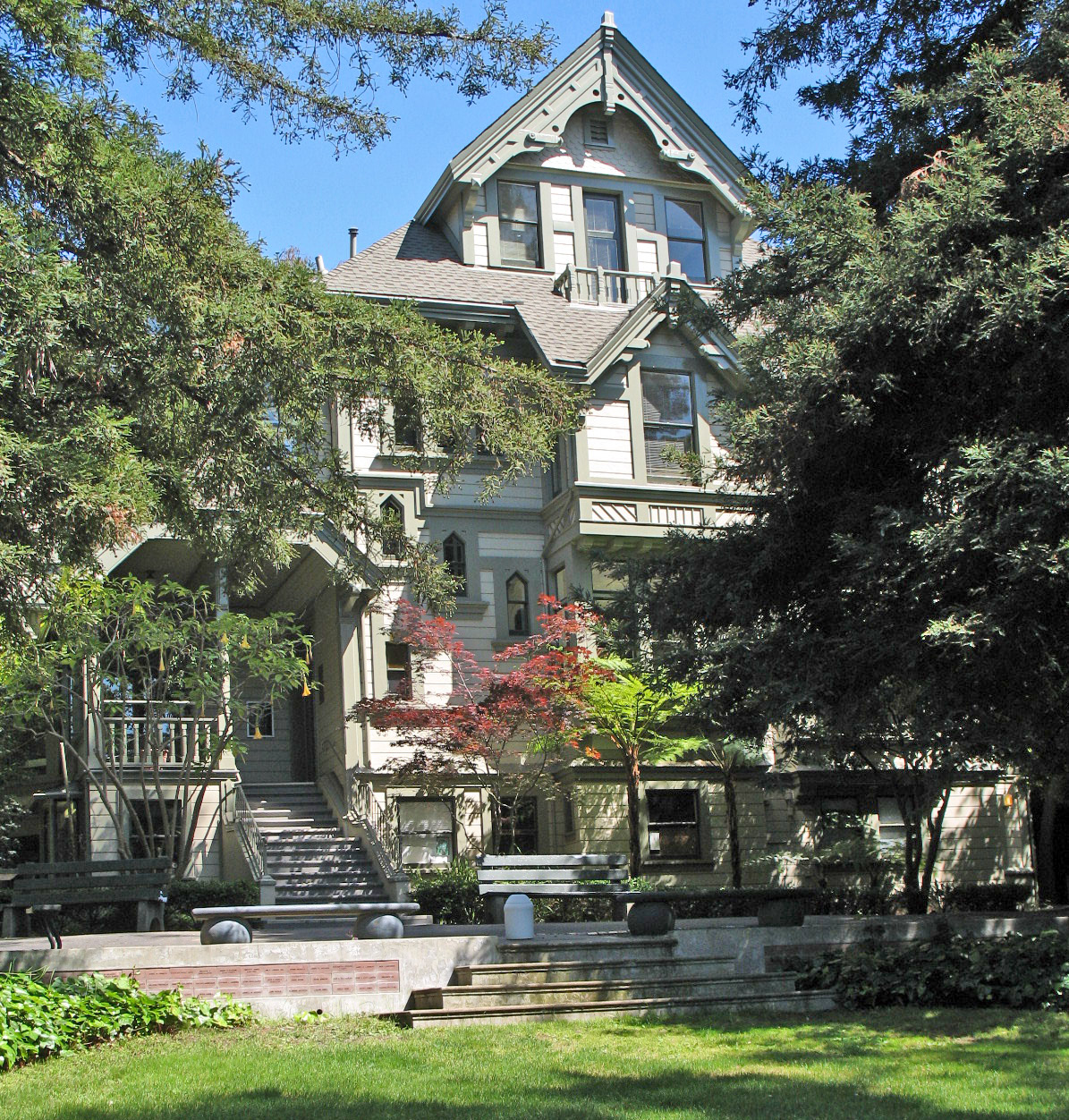 National Register of Historic Places listings in Alameda County, California. Treadwell Mansion, 5212 Broadway, Oakland, CA (now part of the California College of the Arts). Photographed 2009-05-17 from the grounds to the west of the building and east of Broadway.